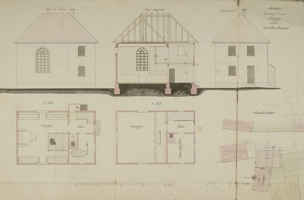 t